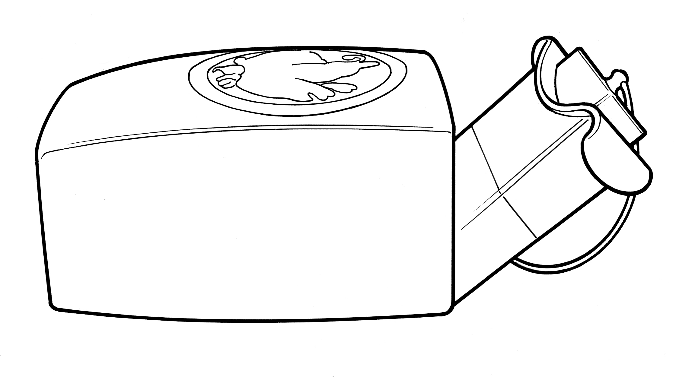 Line drawing of a Japanese metsubushi by Brian Snoody